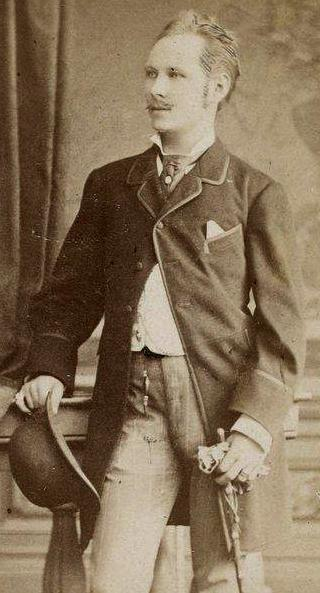 Philipp Paulitschke's portrait